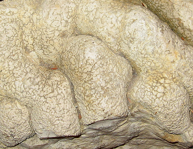 Top surface of a piece of Cotham Marble, showing the three-dimensional shape of these stromatolite build-ups - also known as "Brain stone" from its appearance - specimen found at Henleaze Road in Bristol, England.